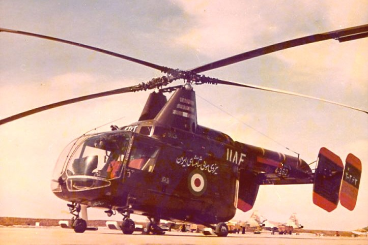 IIAF acquired 12 HH-43 Huskie helicopters from the USA at 1965.